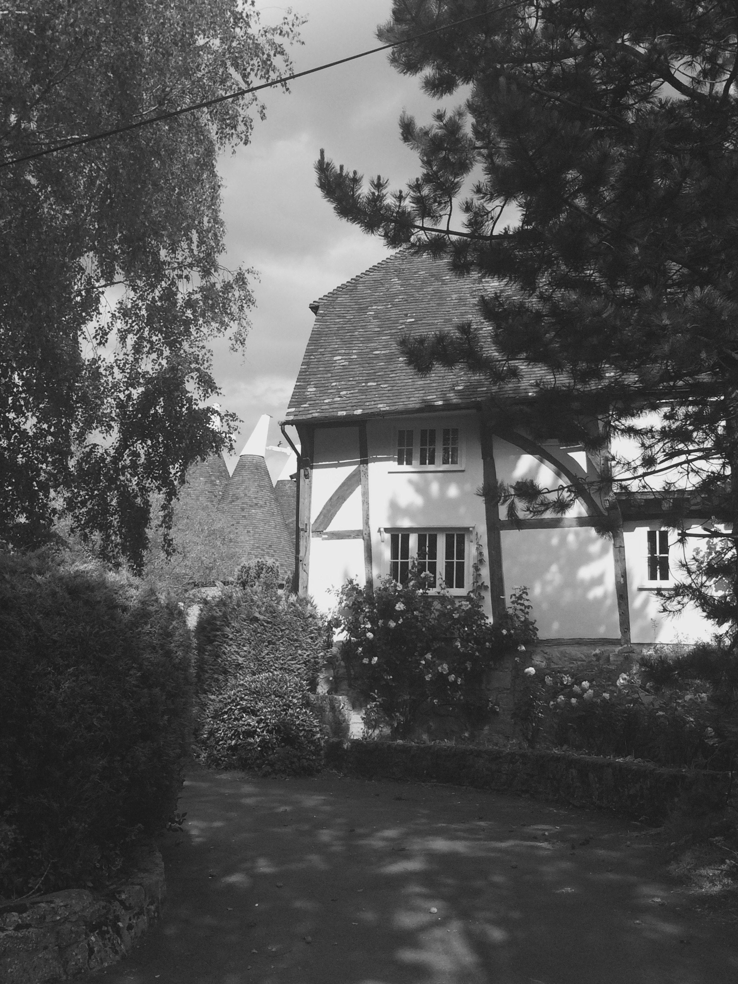 Roses farmhouse, near Maidstone, home of the Hatch family of bellfounders from the late 16th century until 1639. As viewed from the public road.